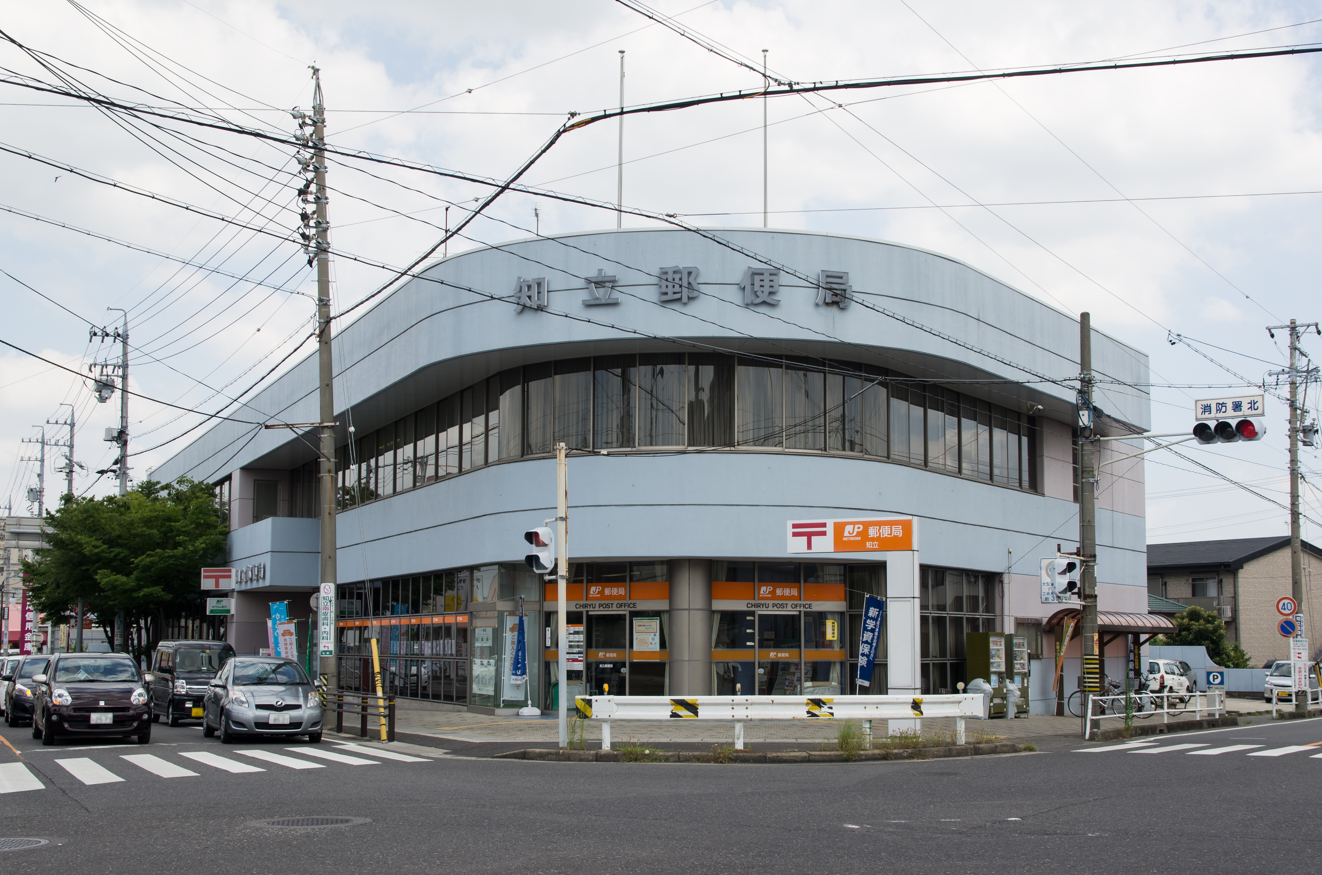 Chiryu Post Office in Chiryu, Aichi, Japan